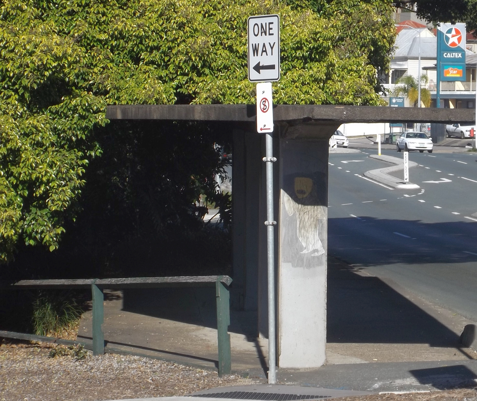 Photo of the Windsor Air Raid Shelter along Lutwyche Road at Lutwyche, Brisbane, Queensland, Australia.